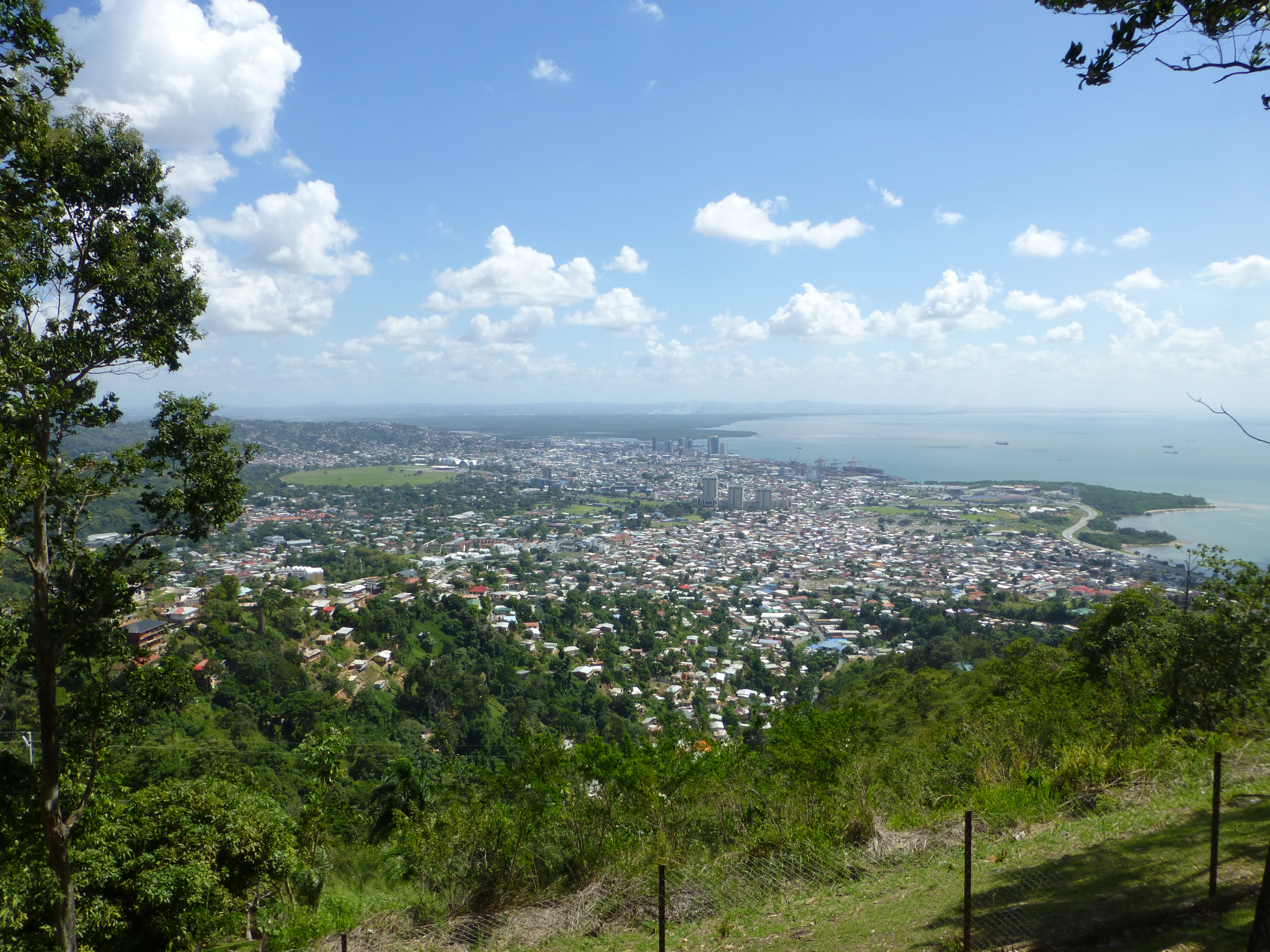 Port of Spain, Trinidad, seen from Fort George Hill.